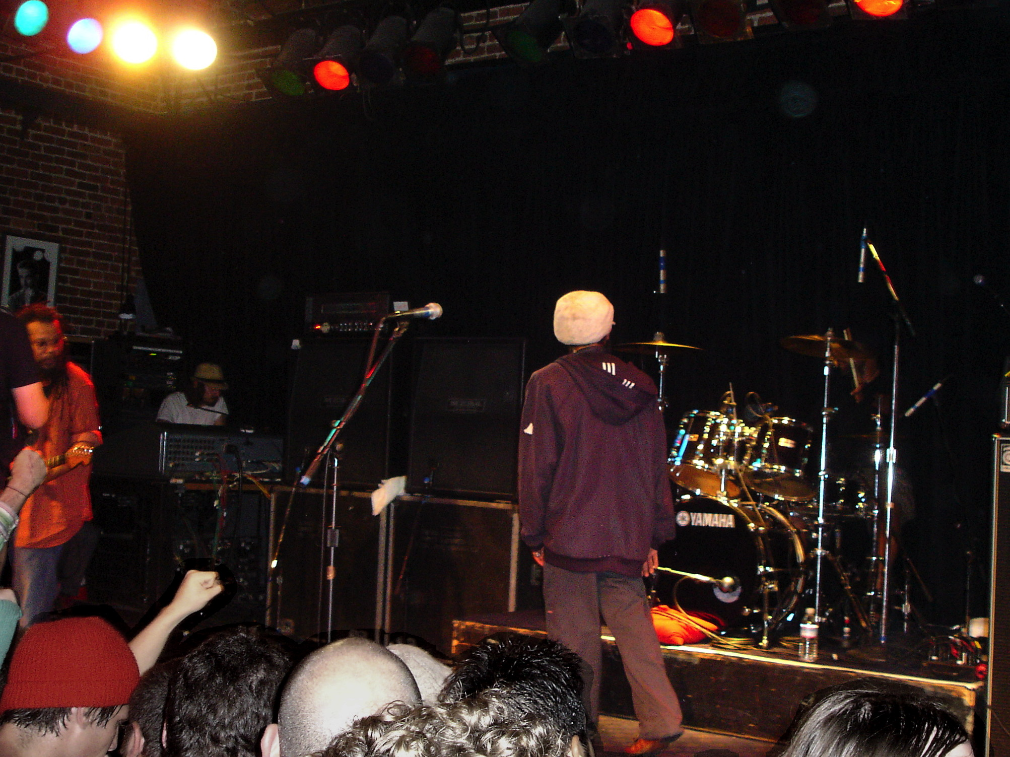 Bad Brains live, september 24th 2007, San Francisco